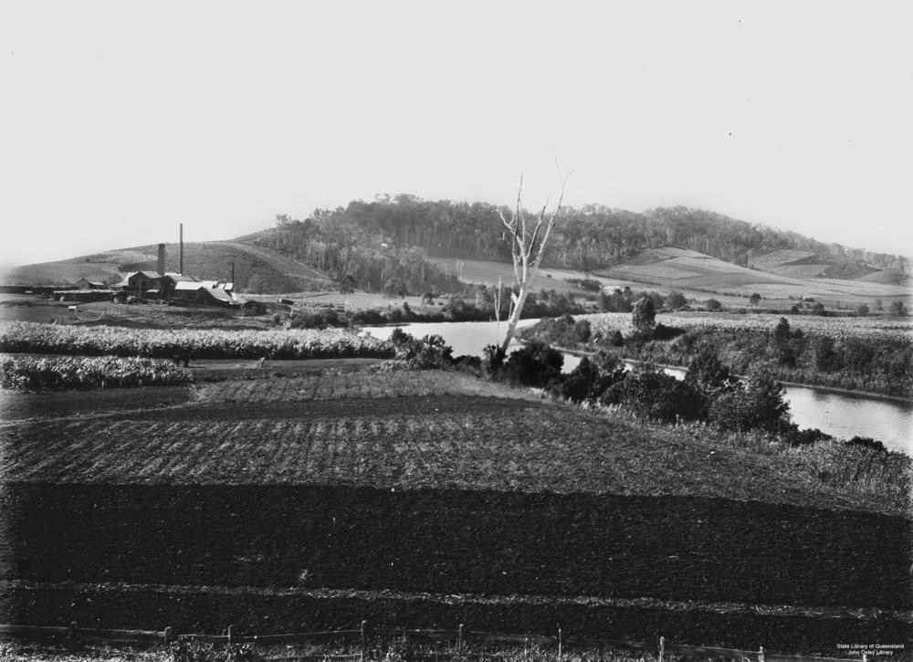 Beenleigh Rum Distillery near Beenleigh, Queensland, ca. 1912 Rolling hills, sugar cane fields, and the Beenleigh Rum Distillery on the banks of the Albert River, ca. 1912.